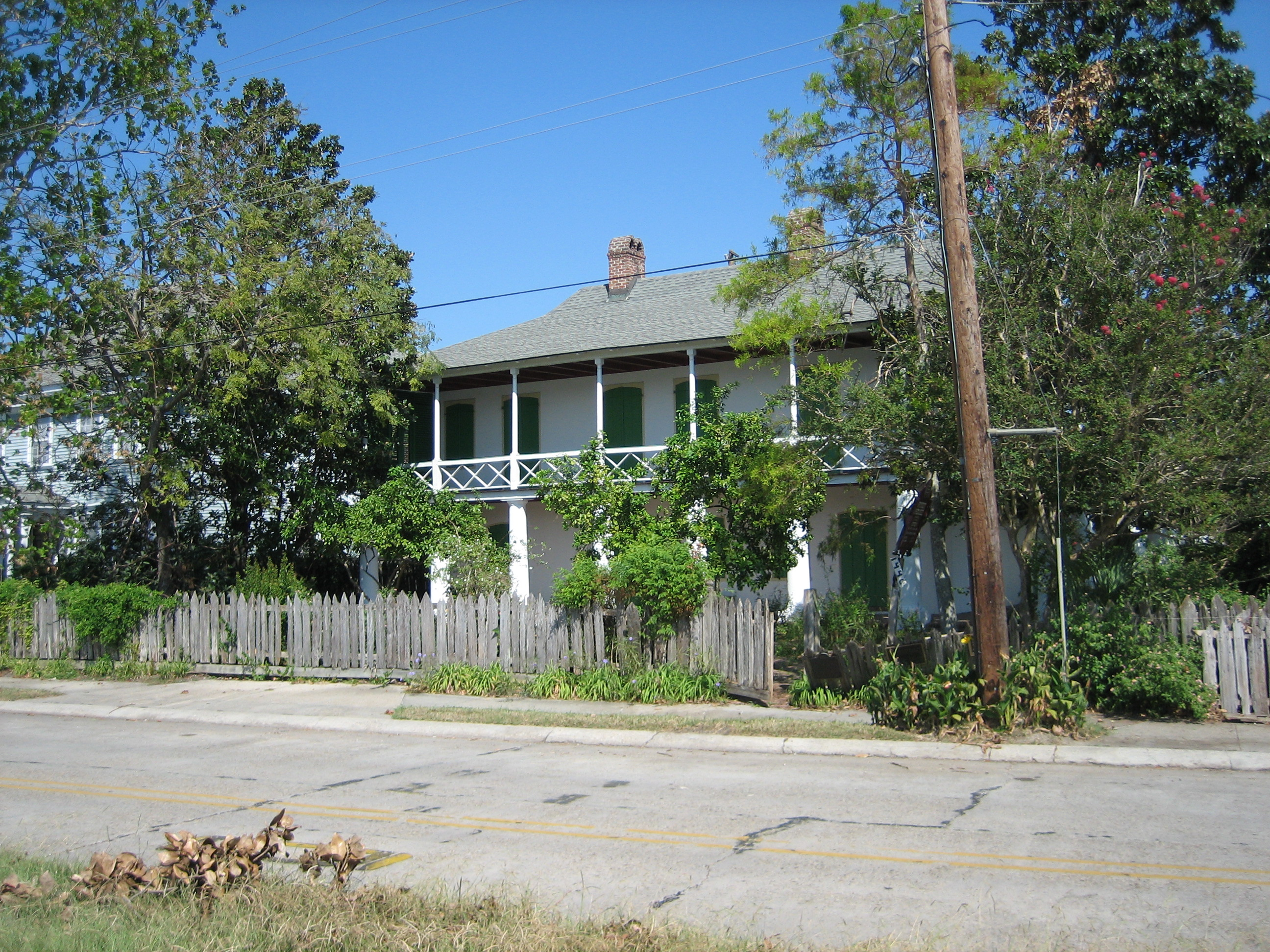 Summary The 200 year old Pitot House along Bayou St. John, New Orleans. Unflooded by Hurricane Katrina aftermath; only some wind damage to fence visible.